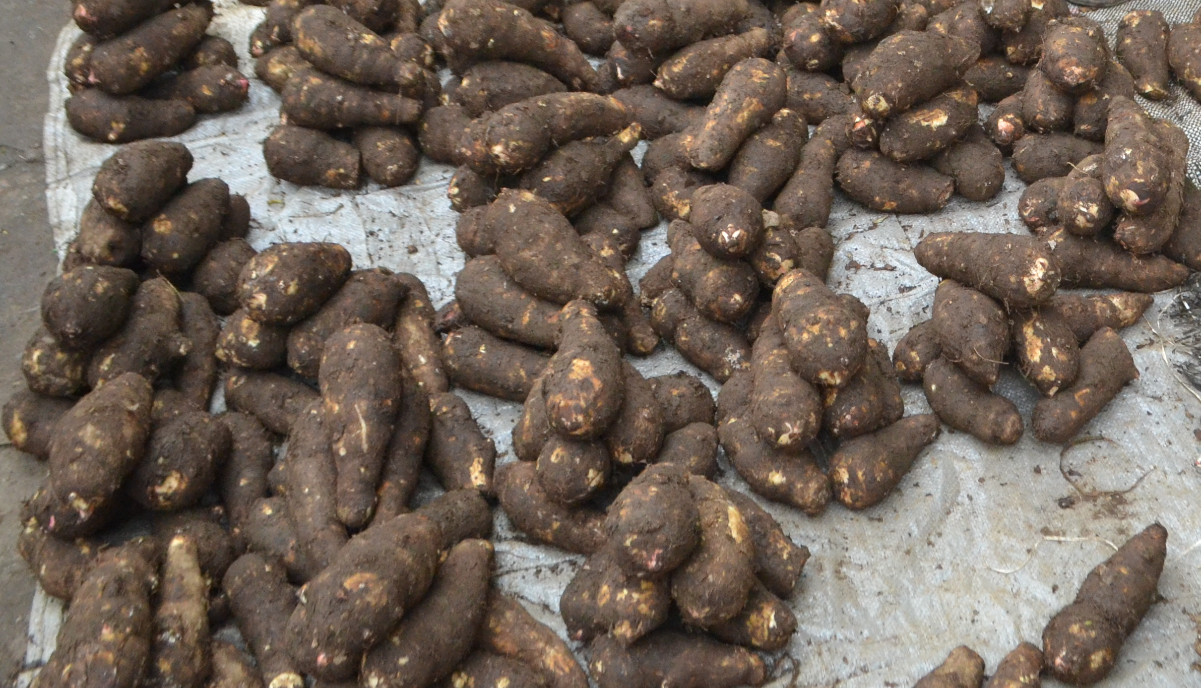 Macabo tubers